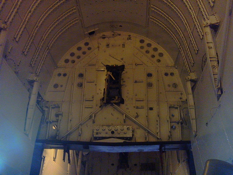 B-1A Lancer at Wings Over the Rockies Museum, Denver CO, taken by Lance Barber, July 2007, volunteer Curator of Military Aircraft. Photo of bomb bay. Photo for public domain. Request the usual "Courtesy of" line for use outside of Wikipedia. Thank you.